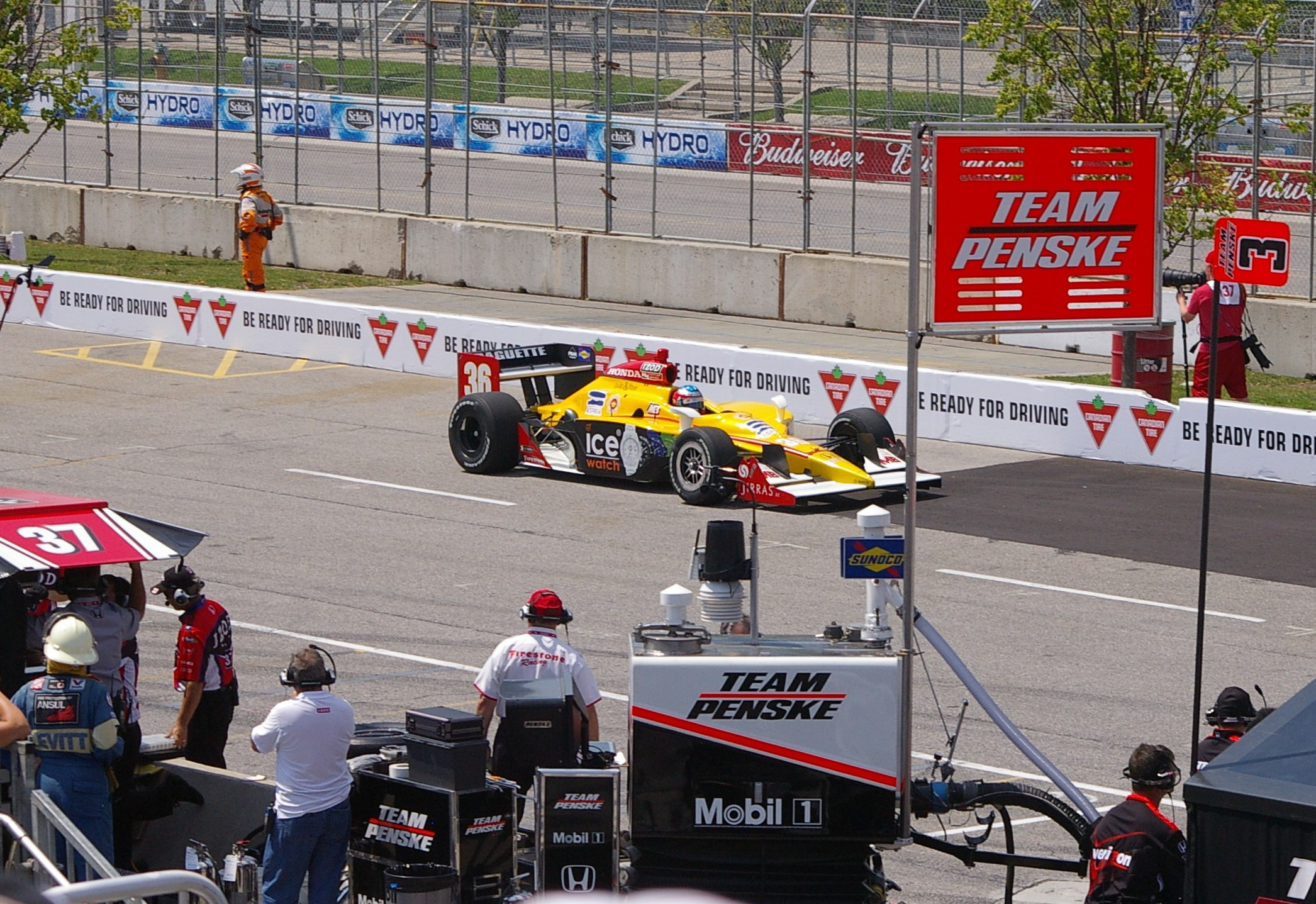 Bertrand Baguette during practice for the 2010 Honda Indy Toronto.